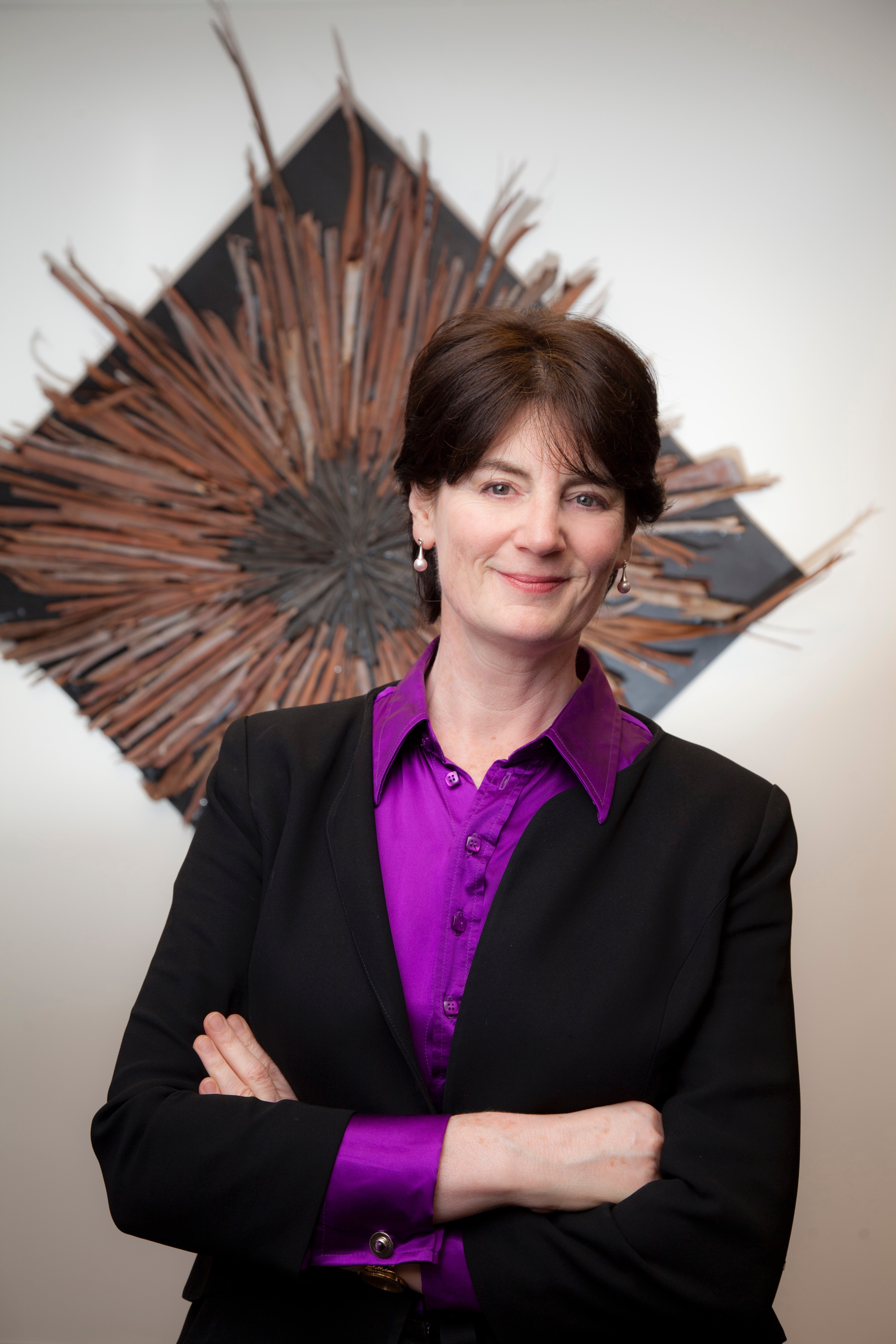 Fiona McLeod SC in front of original artwork by her daughter Emily Andolfatto in barristers chambers